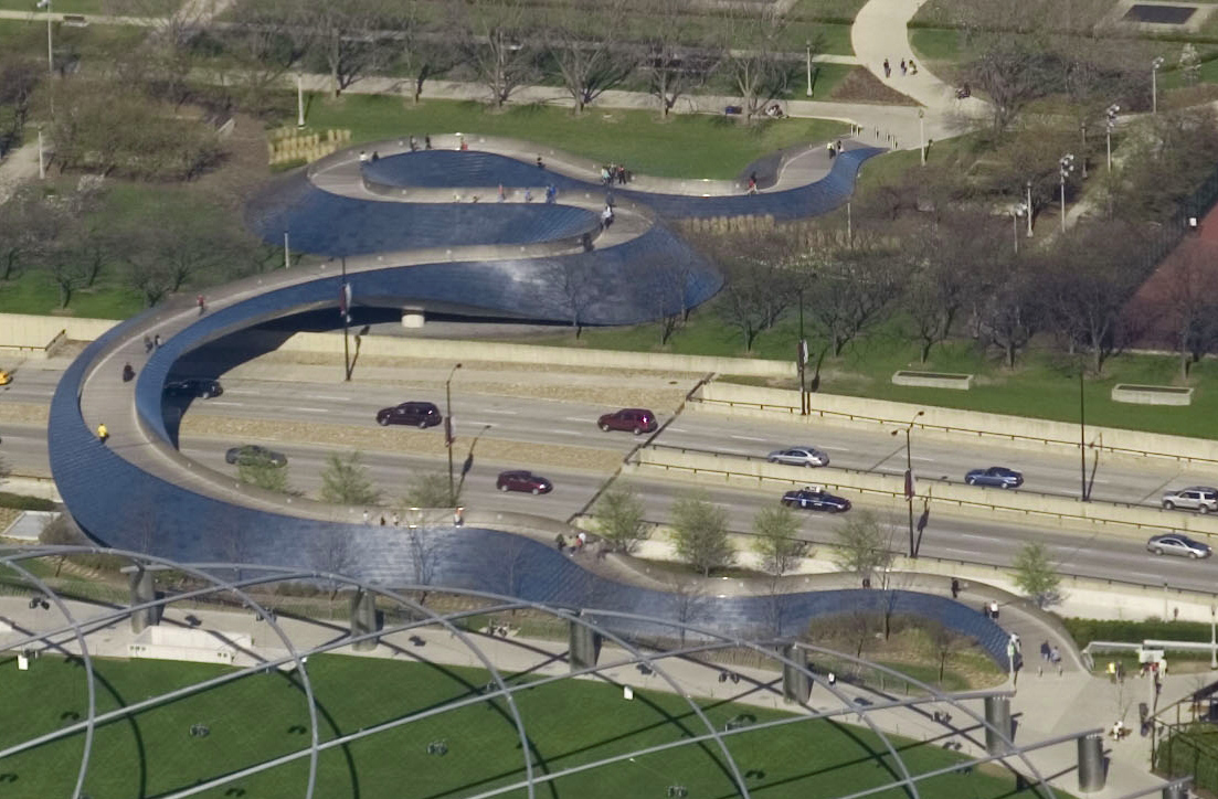 Crop of BP Pedestrian Bridge in Millennium Park in Chicago, Illinois, USA. This view may no longer be visible with construction of the Legacy Tower between the park and Sears Tower